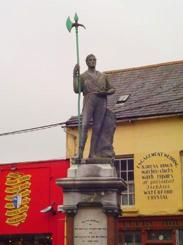 Statue to commemorate the War of the Big Cross 1798. Clonakilty, Co. Cork, Ireland. City centre. Taken AUG-05.